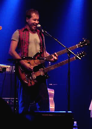 Jarmo Saari playing with Anna-Mari Kähärän Orkesteri at Jyväskylän Kesä -festival in 14th July 2007.